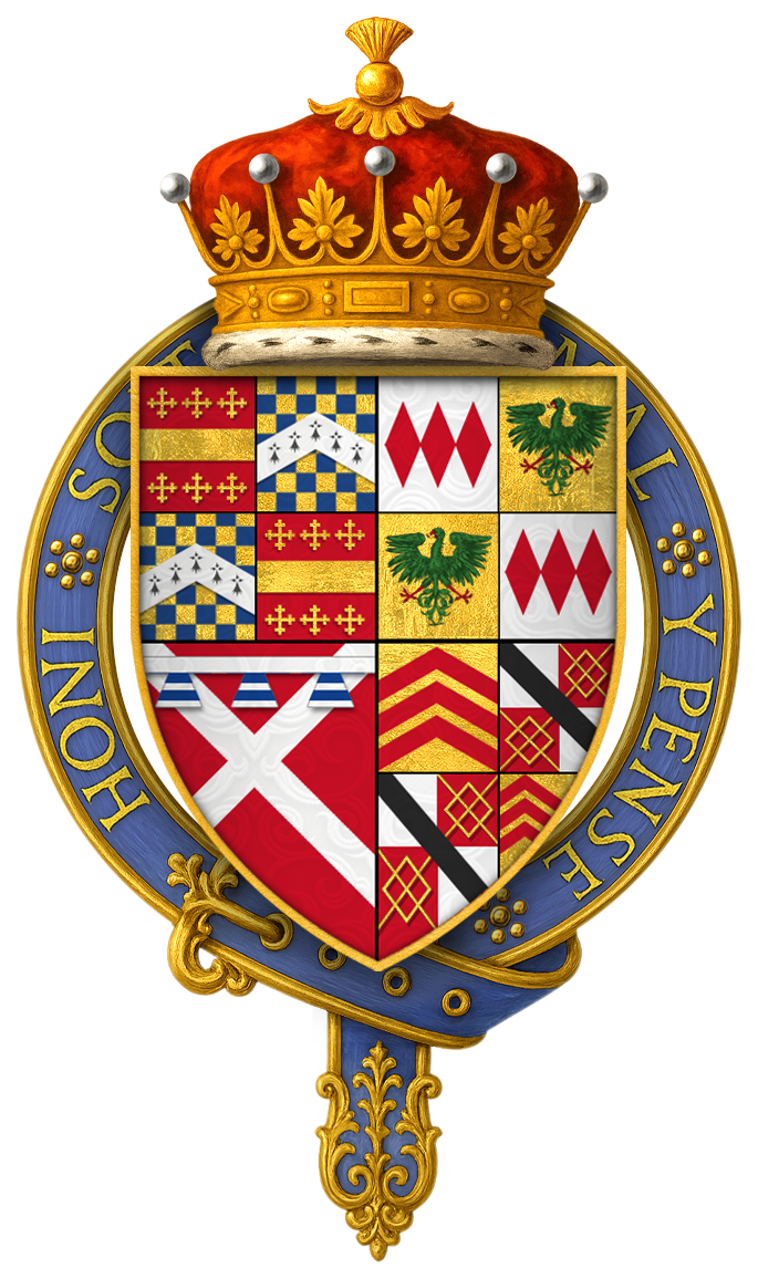 Sir Richard Neville, 16th Earl of Warwick, KG See illustration by Dan Escott, The Kingmaker see also European Heraldry: War of the Roses